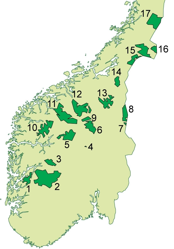 Map of the National Parks of Norway. The parks are 1: Folgefonna nasjonalpark; 2: Hardangervidda nasjonalpark; 3: Hallingskarvet nasjonalpark; 4: Ormtjernkampen nasjonalpark; 5: Jotunheimen nasjonalpark; 6: Rondane nasjonalpark ; 7: Gutulia nasjonalpark; 8: Femundsmarka nasjonalpark; 9: Dovre nasjonalpark ; 10: Jostedalsbreen nasjonalpark; 11: Reinheimen nasjonalpark; 12: Dovrefjell-Sunndalsfjella nasjonalpark; 13: Forollhogna nasjonalpark; 14: Skarvan og Roltdalen nasjonalpark; 15: Blåfjella-Skjækerfjella nasjonalpark; 16: Lierne nasjonalpark; 17: Børgefjell nasjonalpark (For legend